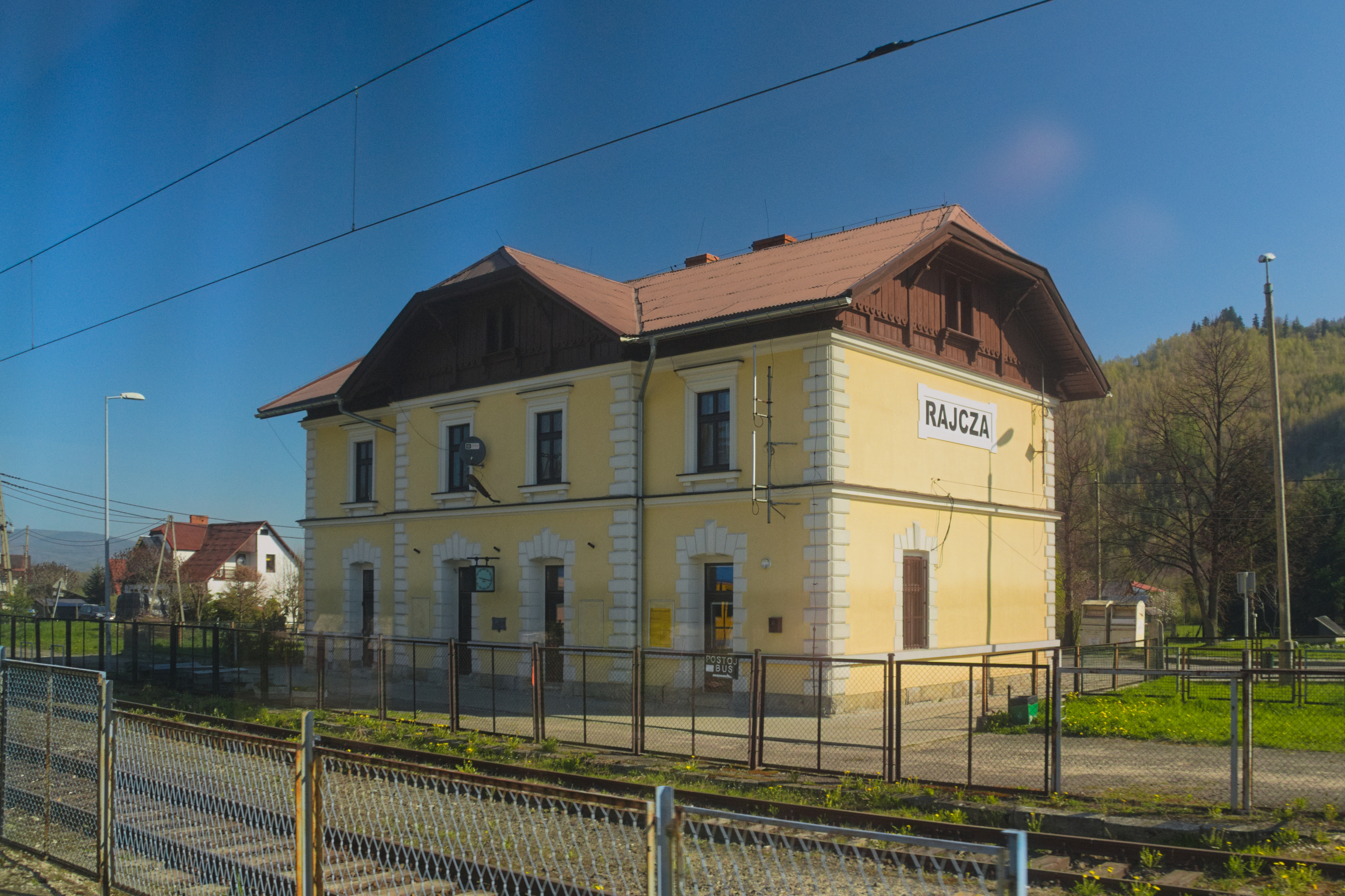 Rajcza train station, view from Koleje Śląskie train